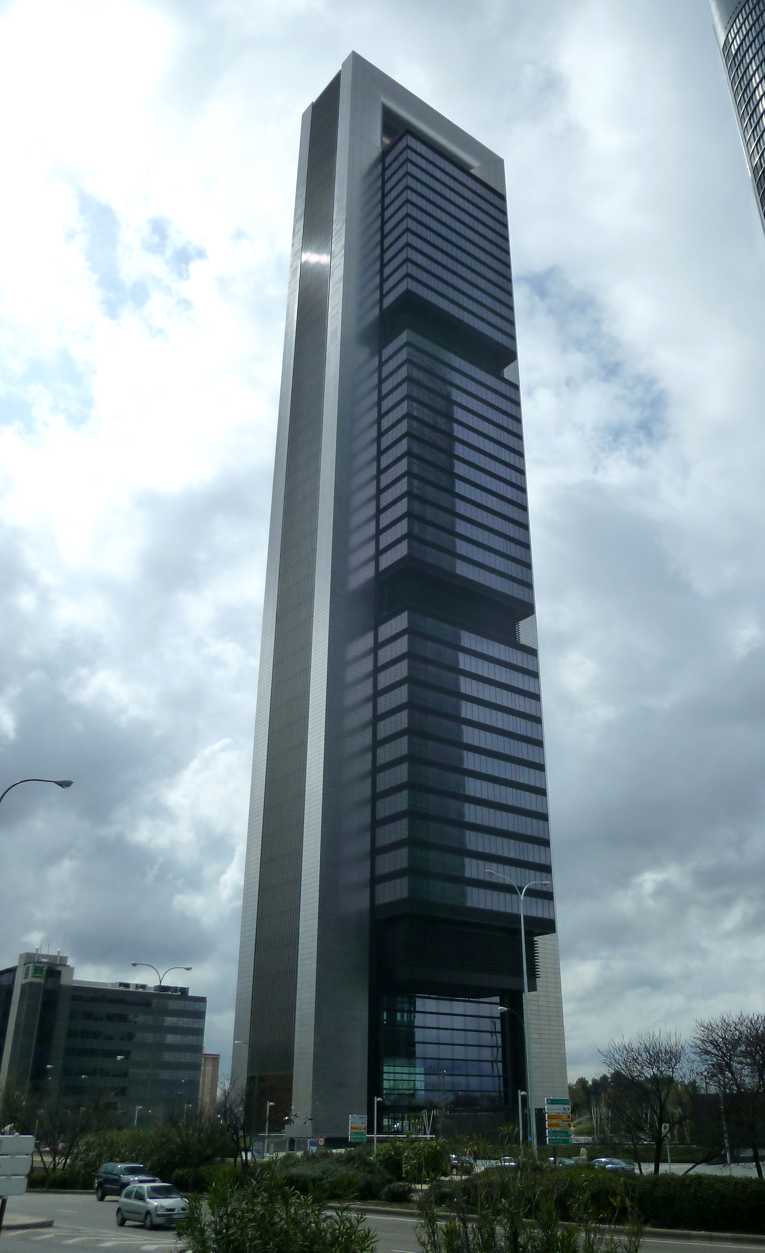 View, from the north-east angle, of Torre Caja Madrid, in Cuatro Torres Business Area (Madrid, Spain).